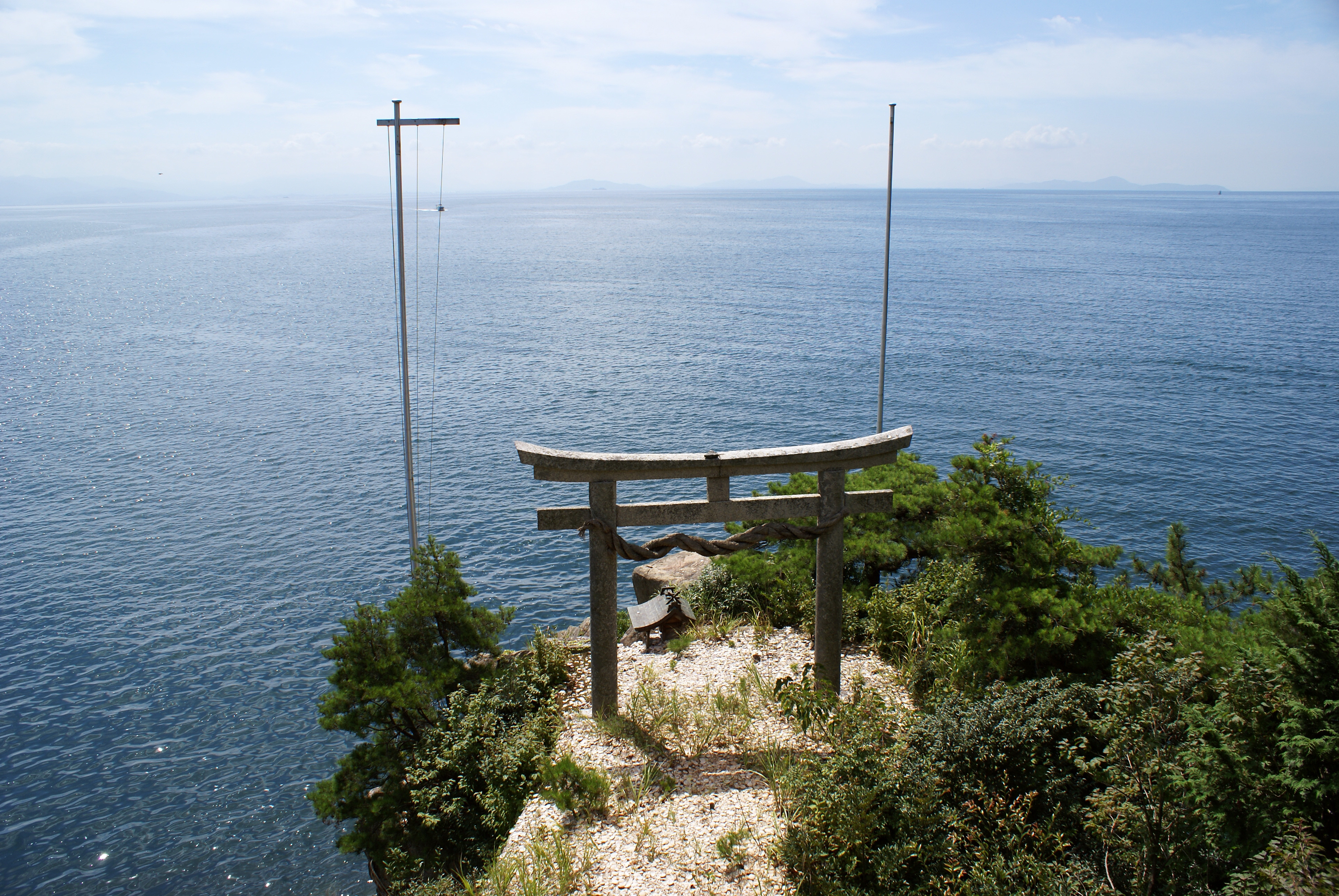 Tsukubusuma-jinja in Nagahama, Shiga prefecture, Japan